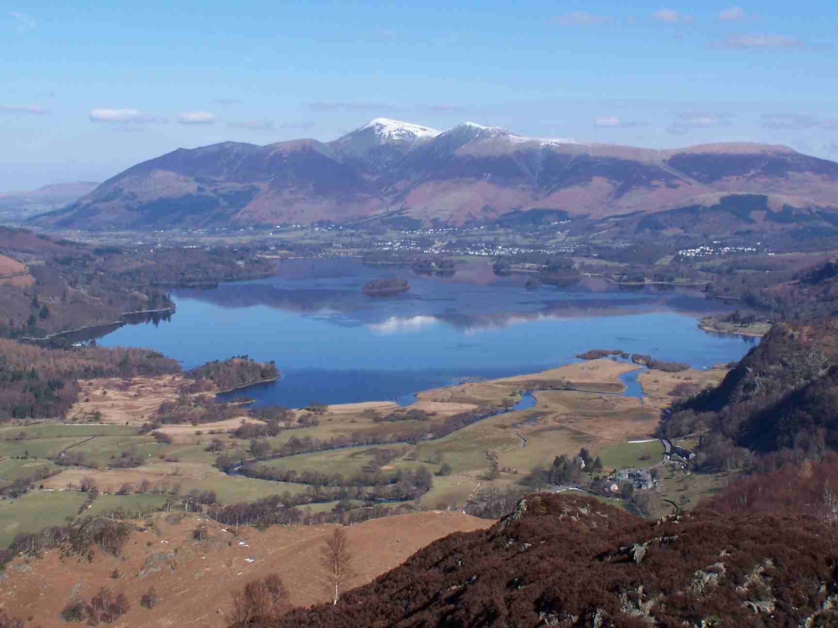 Personal photograph taken on the 22nd March 2006 by Mick Knapton